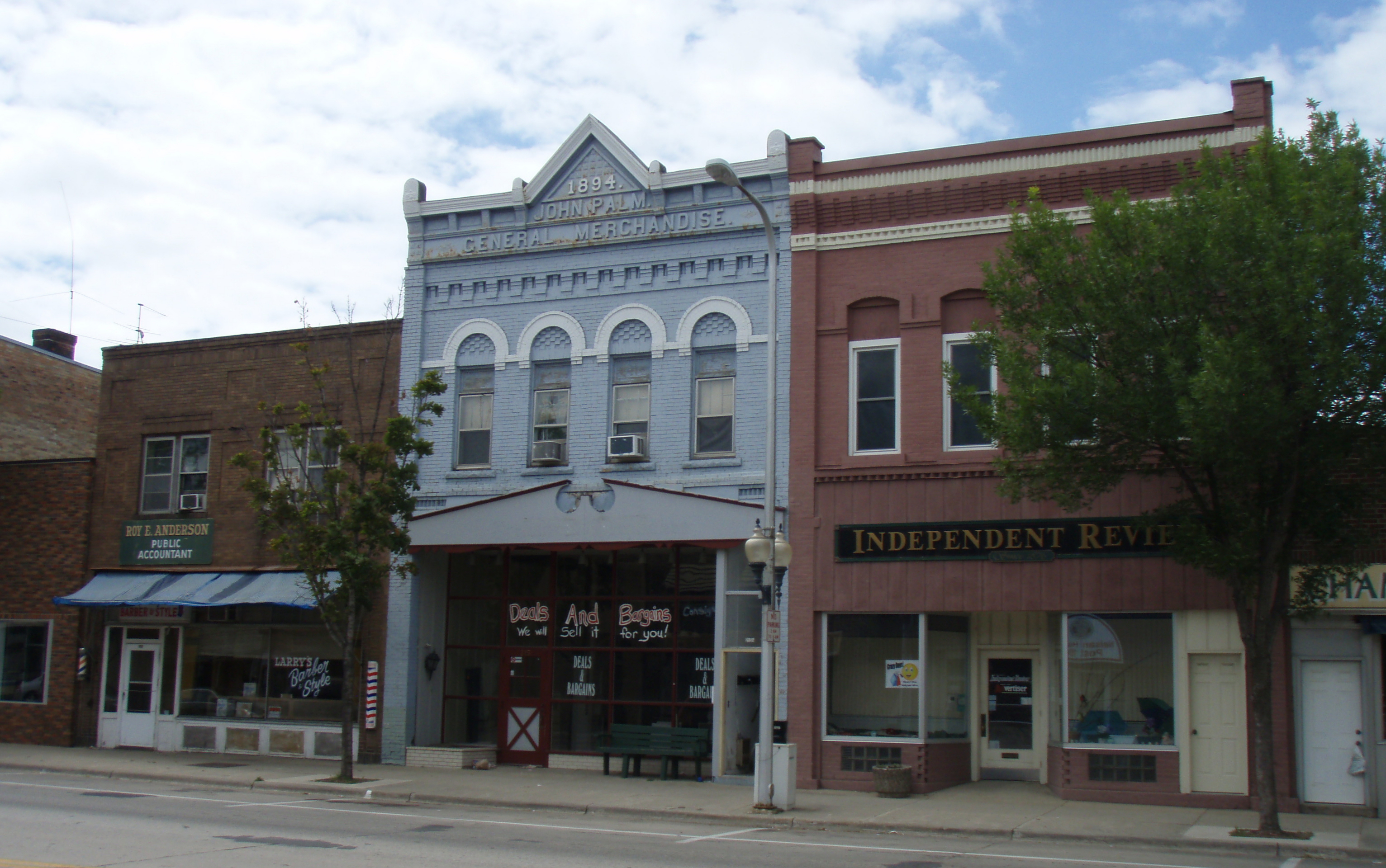 Litchfield Commercial Historic District in Litchfield, Minnesota, listed on the National Register of Historic Places.